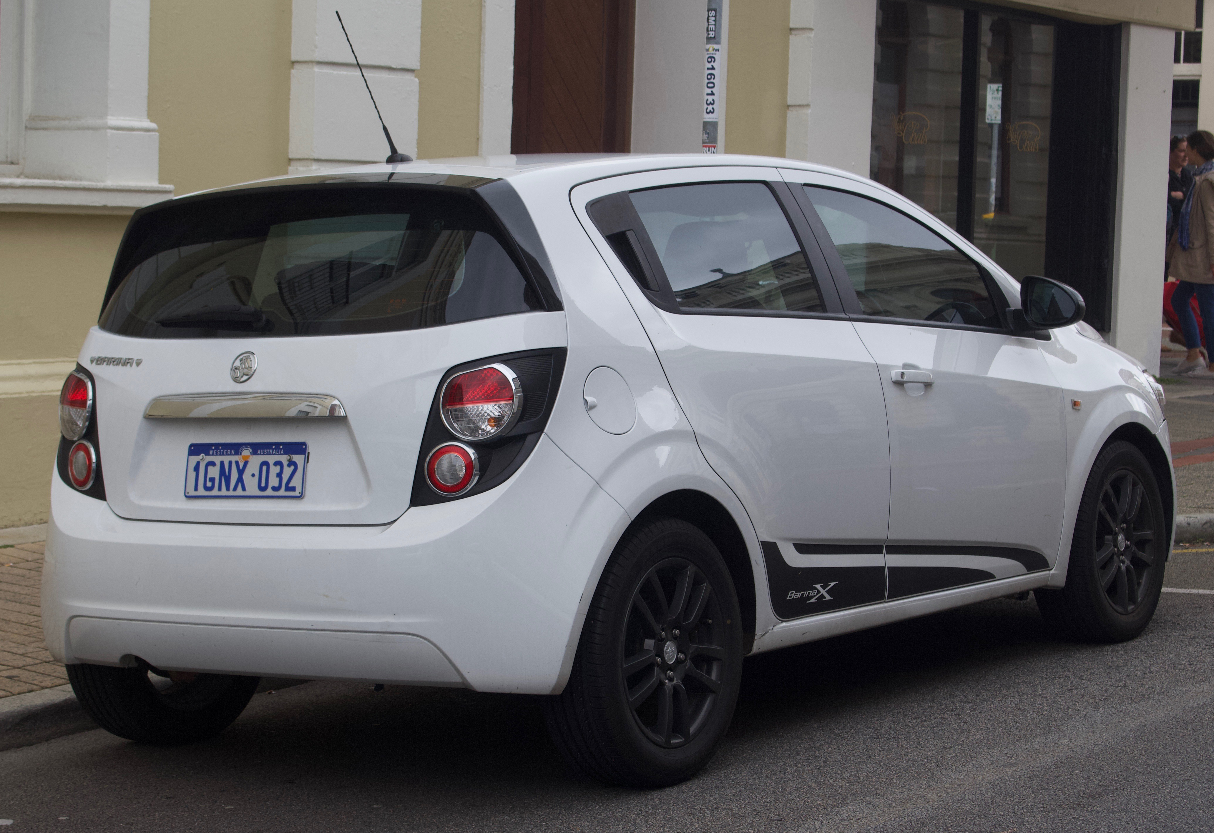 2015 Holden Barina (TM MY15) X Special Edition hatchback. Photographed in Fremantle, Western Australia. Note: Only 700 examples were ever produced, so is a rare sight on our roads.